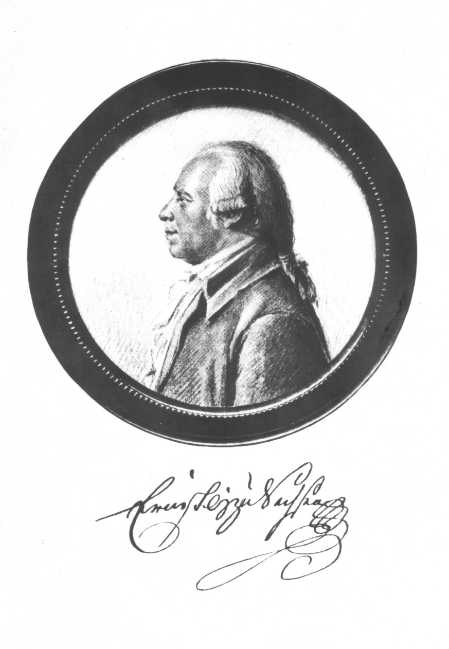 Portrait of Ernest II, Duke of Saxe-Gotha-Altenburg (1745-1804)